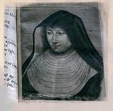 Gertrude More, great-great granddaughter of Sir Thomas More Dame Gertrude More (born as Helen More, 25 March 1606, Low Leyton, Essex, England - died 17 August 1633, Cambrai, France) was a nun of the English Benedictine Congregation and chief founder of Stanbrook Abbey.